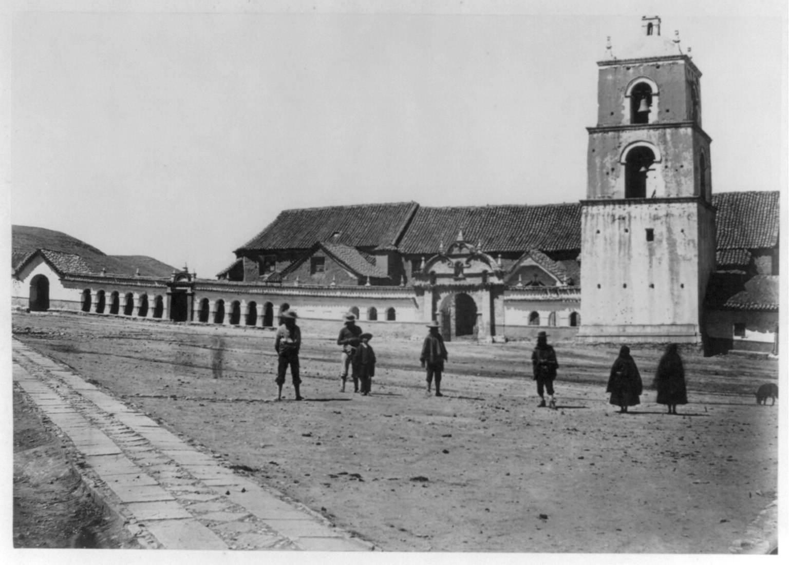 Title: The Cathedral at La Paz, Bolivia Abstract/medium: 1 photographic print : albumen.